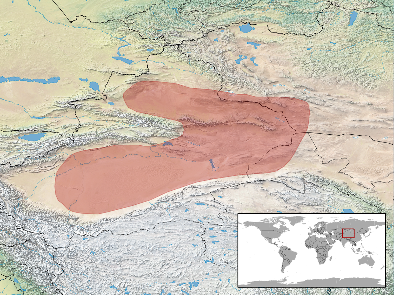 geographic distribution of Teratoscincus przewalskii